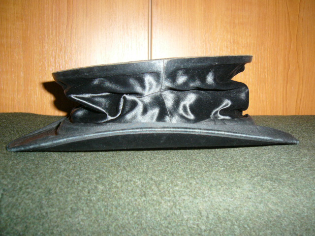 collapsible opera hat, top hat